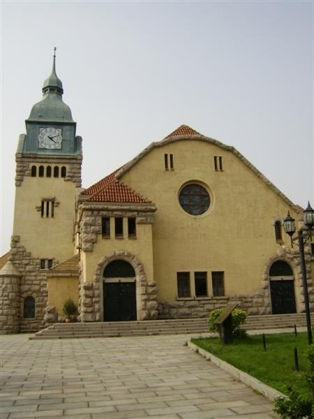 Jīdū Jiàotáng (Protestant Church) in 15 Jiansu Lu, Qīngdāo, P.R.C.. Designed by German architect Curt Rothkegel (1876–1946). Built in 1908.